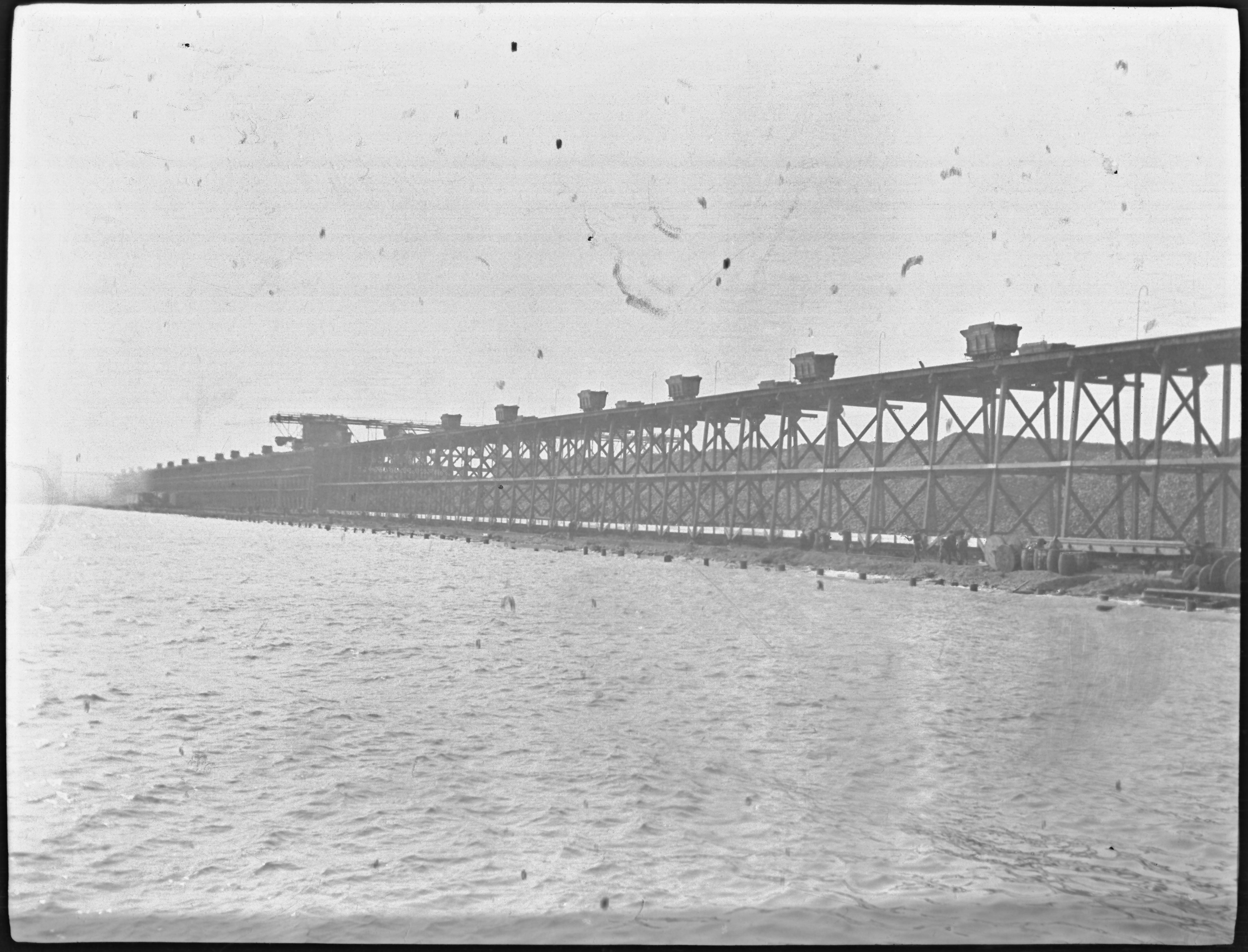 "C.N.R. Coal pile & trestle. Pt. Arthur" Picture taken at Port Arthur, Ontario, 1907, showing the Canadian Northern Railway's coal trestle.